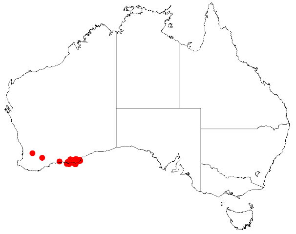 Acacia conniana Occurrence data from Australasia Virtual Herbarium downloaded from on 8 December 2018